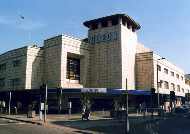 Odeon Cinema, Regent Street and Walliscote Road, Weston-Super-Mare, North Somerset